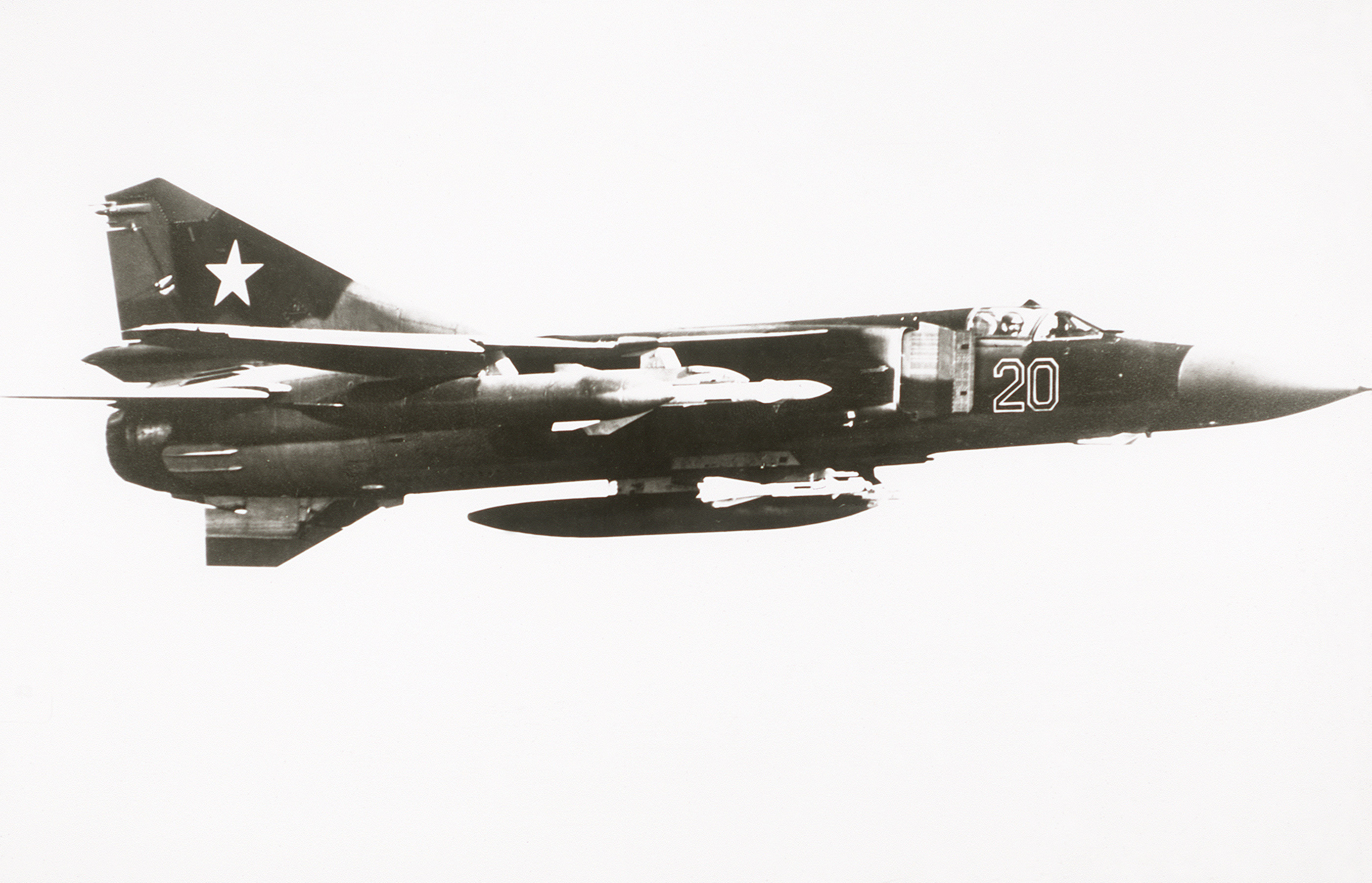 An air-to-air right side view of a Soviet MiG-23MLA Flogger-G aircraft with an AA-7 Apex air-to-air missile attached to the outer wing pylon and an AA-8 Aphid air-to-air missile on the inner wing pylon. (From Soviet Military Power 1985).